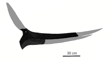 Restoration of various pterosaur specimens assigned to the genus Pteranodon, illustrating variation in cranial anatomy. Unpreserved portions of skulls and jaws depicted in gray. Classification/identification after Kellner, 2010. Sources: Bennett, S.C. (1992). "Sexual dimorphism of Pteranodon and other pterosaurs, with comments on cranial crests". Journal of Vertebrate Paleontology 12 (4): 422–434. Bennett, S.C. (1994). "Taxonomy and systematics of the Late Cretaceous pterosaur Pteranodon (Pterosauria, Pterodactyloida)". Occasional Papers of the Natural History Museum, University of Kansas 169: 1–70. Kellner, A.W.A. (2010). "Comments on the Pteranodontidae (Pterosauria, Pterodactyloidea) with the description of two new species". Anais da Academia Brasileira de Ciências 82 (4): 1063-1084.